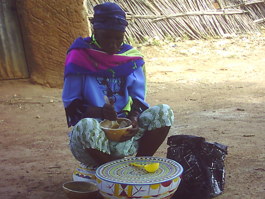 A Fulani woman preparing "Fura da nono" a Fulani delicacy made up of millet and milk This is an image from Nigeria